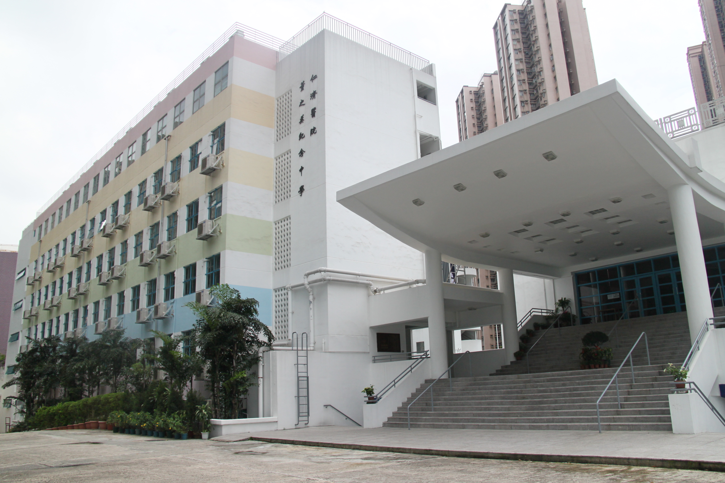 main enterance